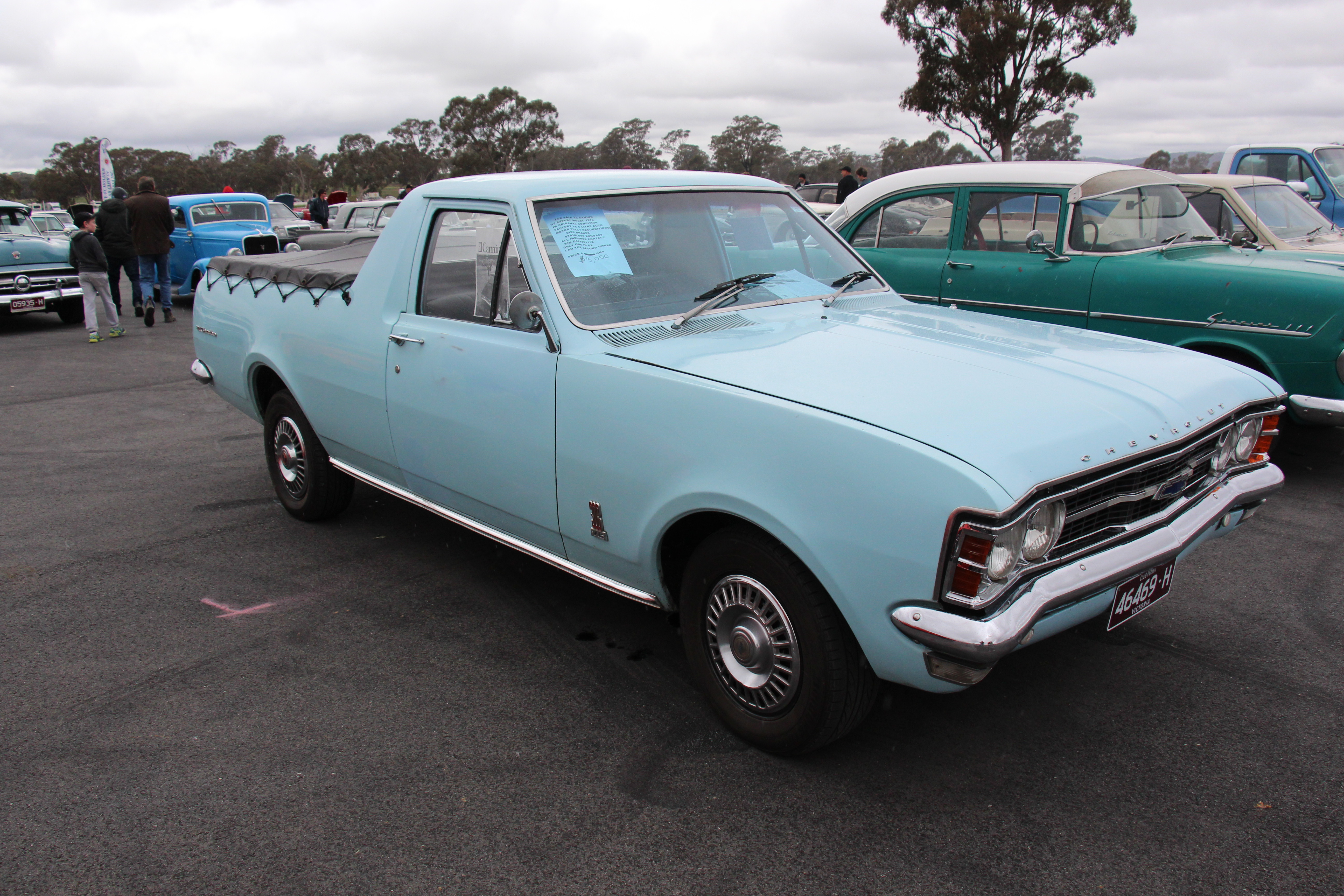 The HT Holden was built in Australia from May 1969-July 1970. Mainly just a facelift on the HK, the HT Holden got a new plastic grille, smaller simpler taillights, wider back window, the long rectangular speedo was replaced by round gauges. It also got improved suspension and increased track. This El Camino Utility was assembled in South Africa, based on the Australian built HT Holden Utility, interior, grille badging was unique to South Africa and it got either a Chevrolet 250 cu in 6 cyl engine or the V8. Less than 500 Holdens were exported in this way